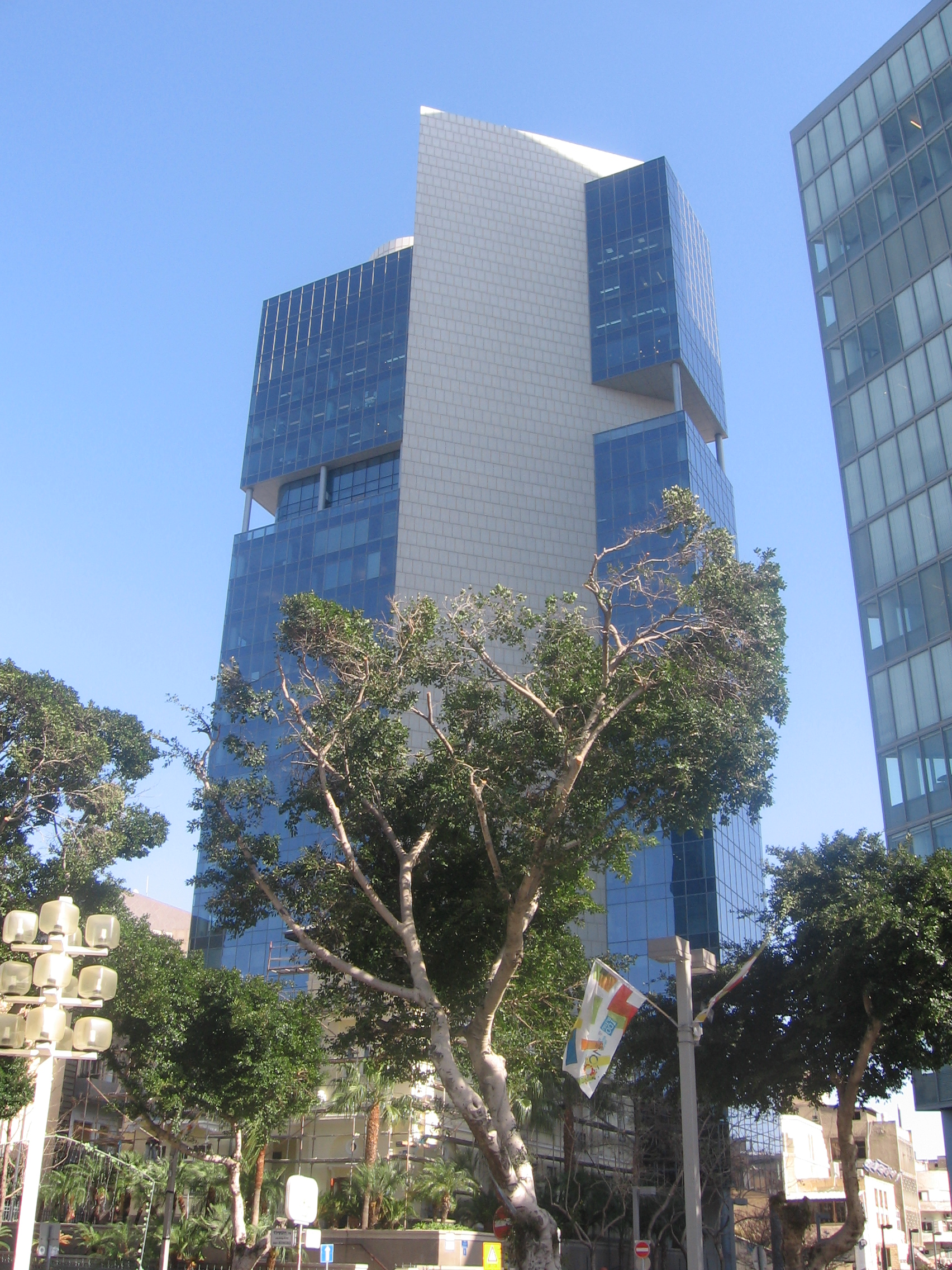 Elrov tower in Tel Aviv.